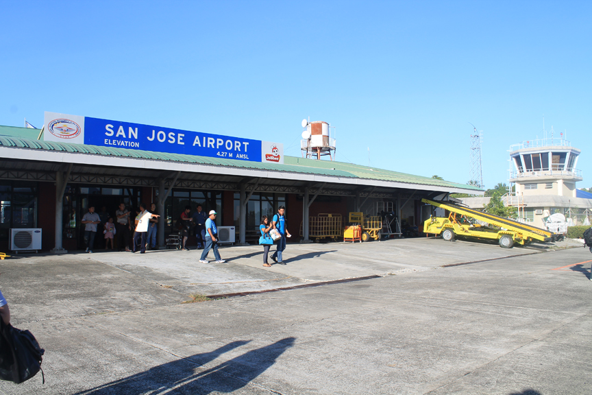 San Jose Airport (Mindoro)